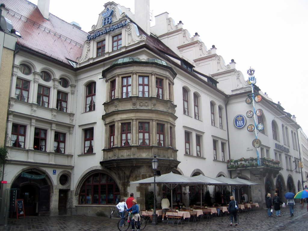 Hofbrauhaus, state-owned brewery, Munich, Germany